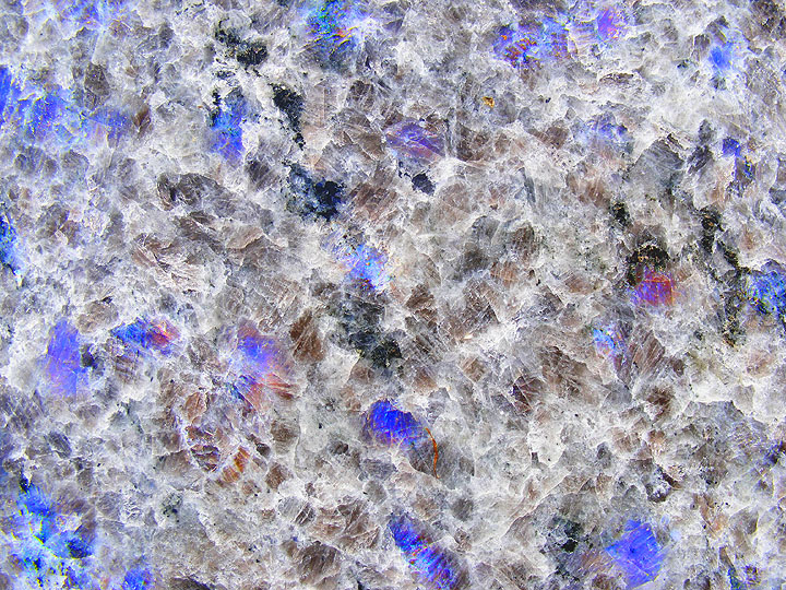 Labradorite ((Ca,Na)(Al,Si)4O8), a feldspar mineral. [foto Paul B. Toman]